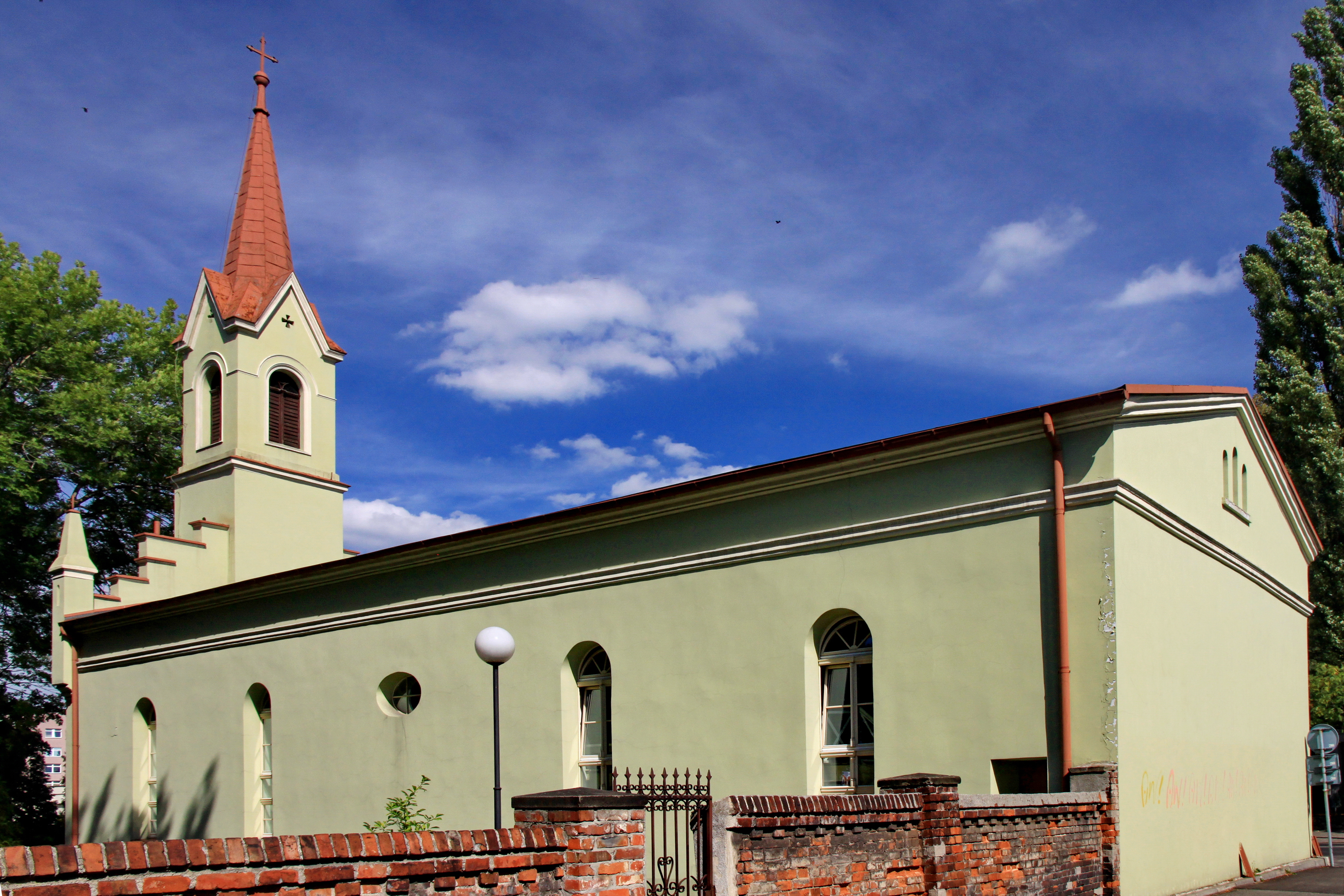 Rybnik, lutheran church, build in 1796, 1853, 1875